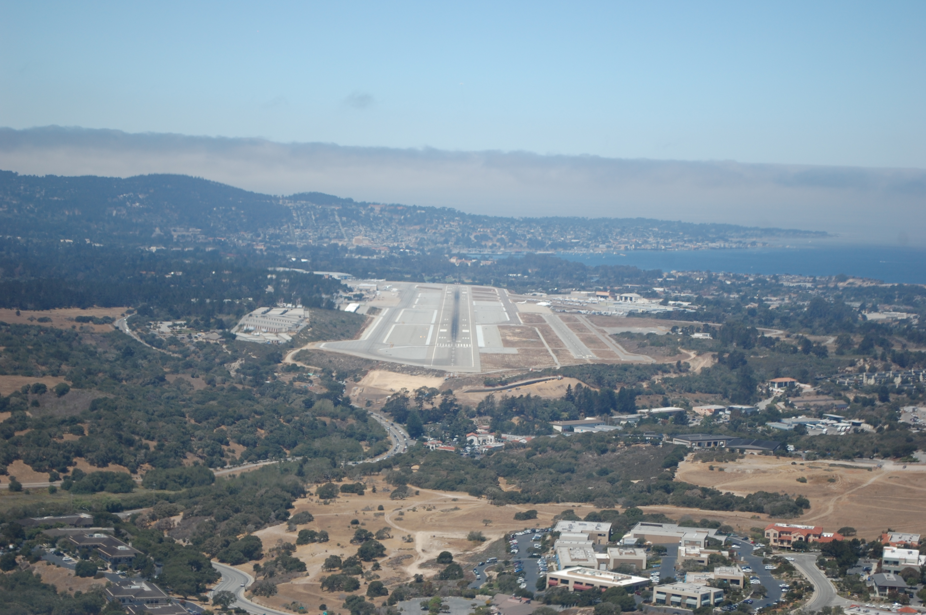 Monterey Peninsula Airport